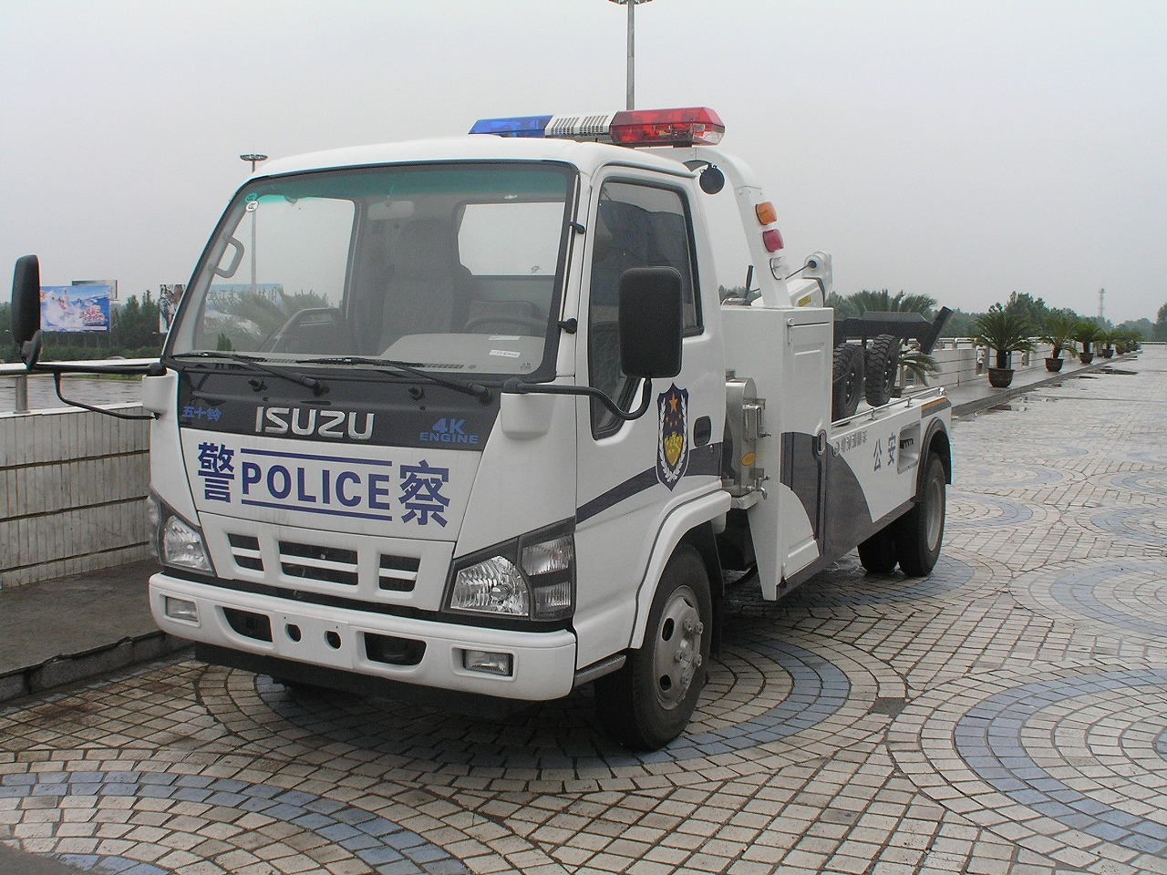 Ministry of Public Security of the People's Republic of China